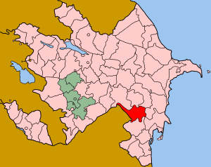 Map of Azerbaijan showing Bilasuvar (Biləsuvar) rayon.